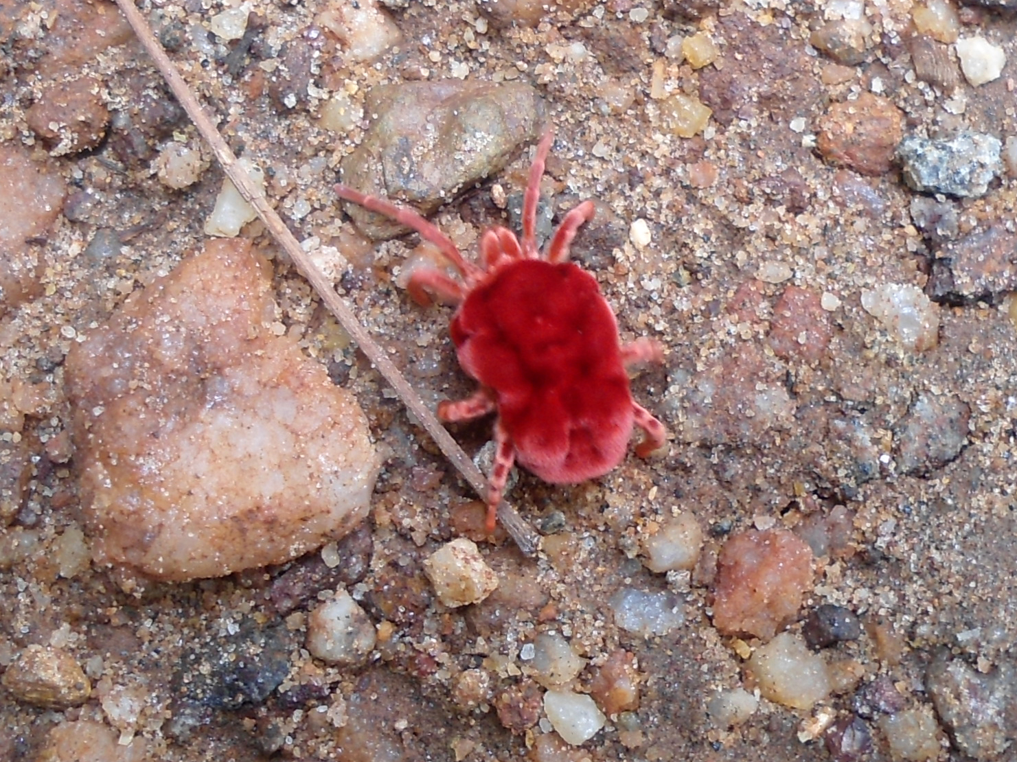 Red Velvet Mite (Trombidium) spotted at Kambalakonda Wildlife Sanctuary, Visakhapatnam